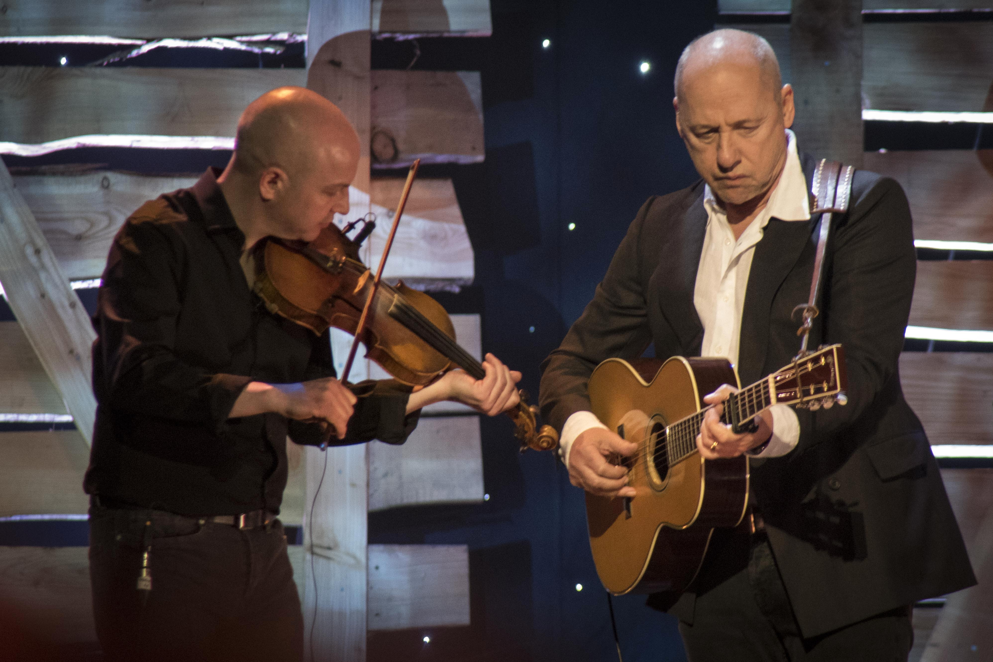 BBC Radio 2 Folk Awards 2016 at The Royal Albert Hall